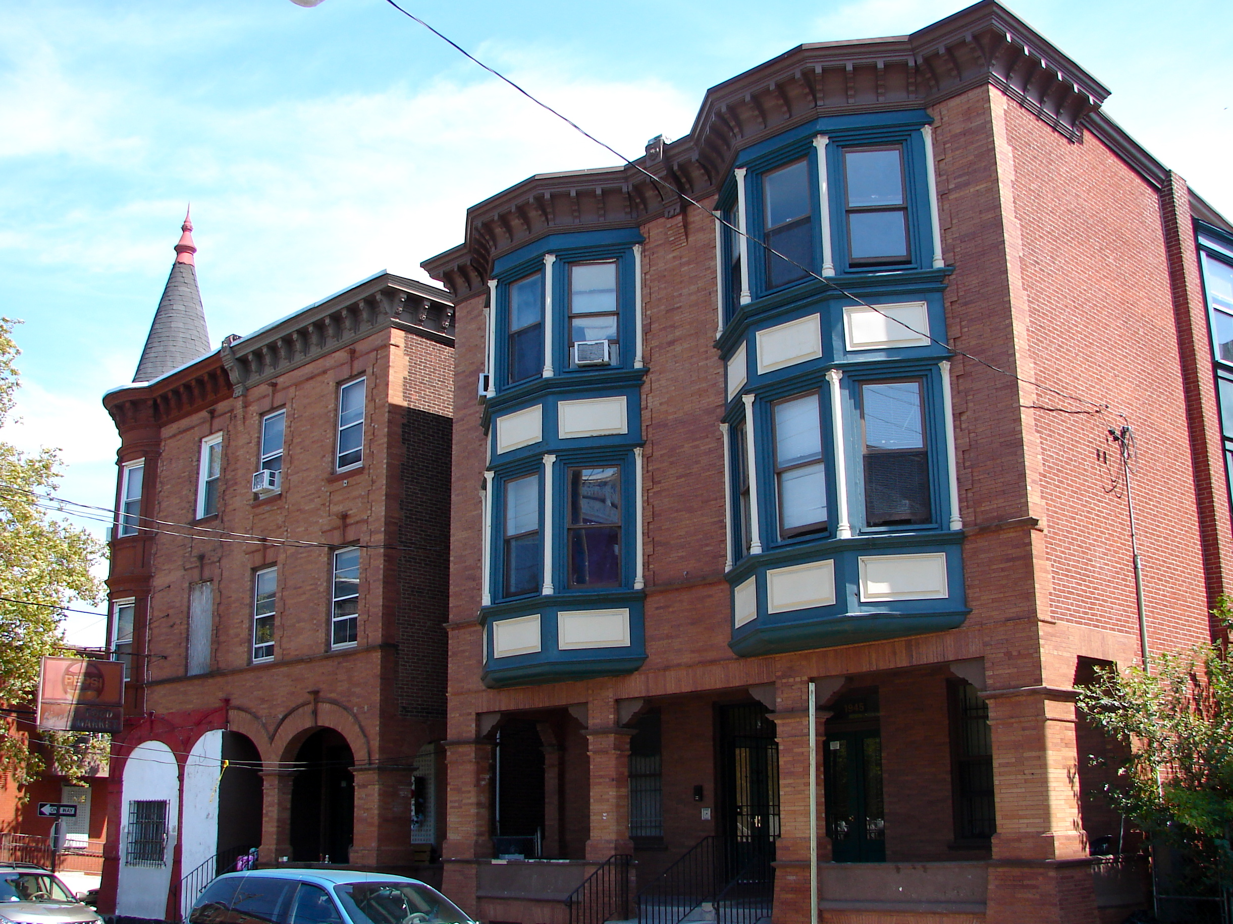 Houses at 1907-1951 N. 32nd St. in Philadelphia on the NRHP since January 11, 1994 in Strawberry Mansion neighborhood of North Philly. These particular buildings are in the upper range of addresses, perhaps 1947-1949